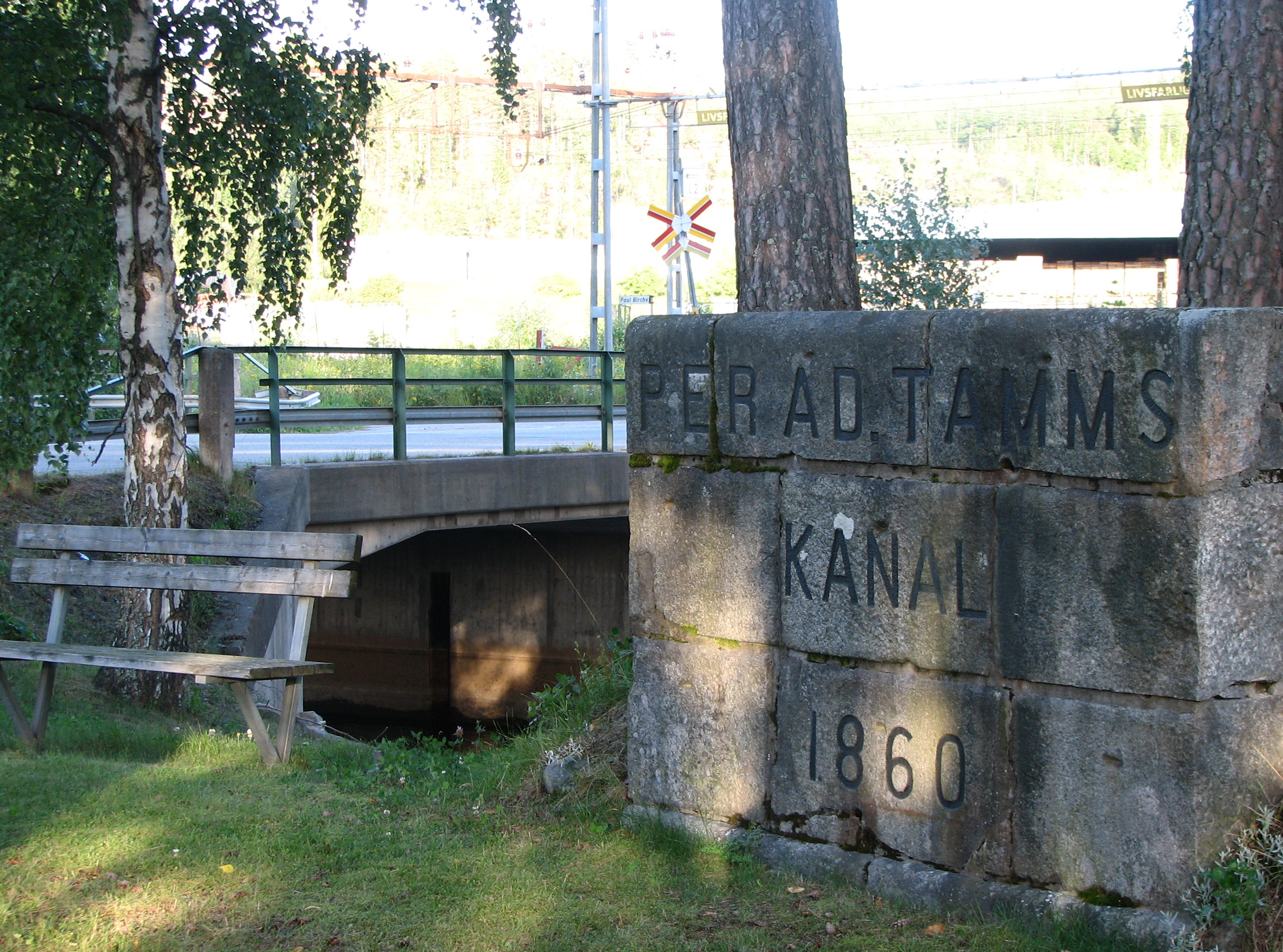 The Per Adolf Tamm monument in Nasviken at Tamm's canal